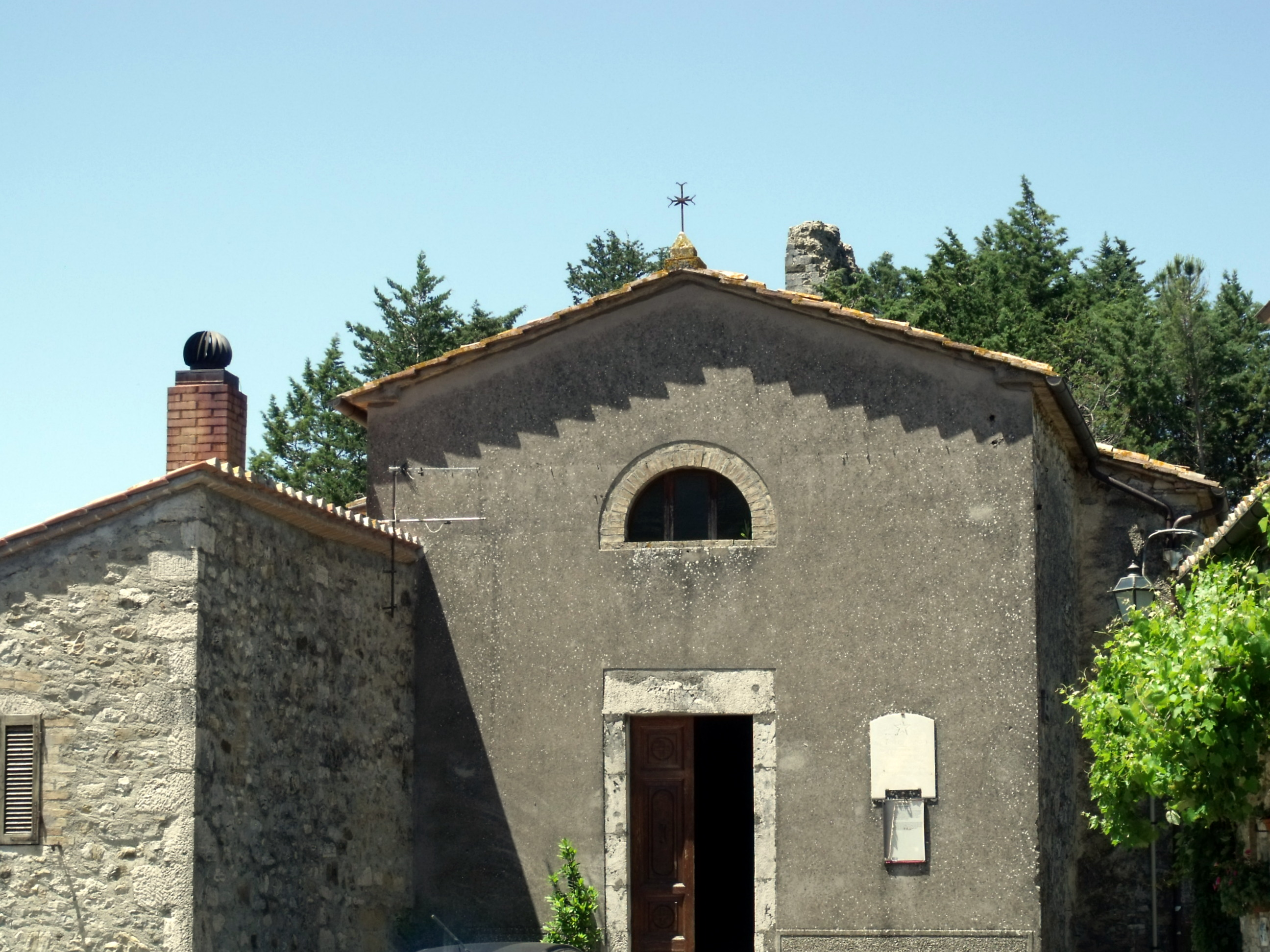 Church Chiesa della Consolazione (Santa Maria) in Rocchette di Fazio, hamlet of Semproniano, Province of Grosseto, Tuscany, Italy